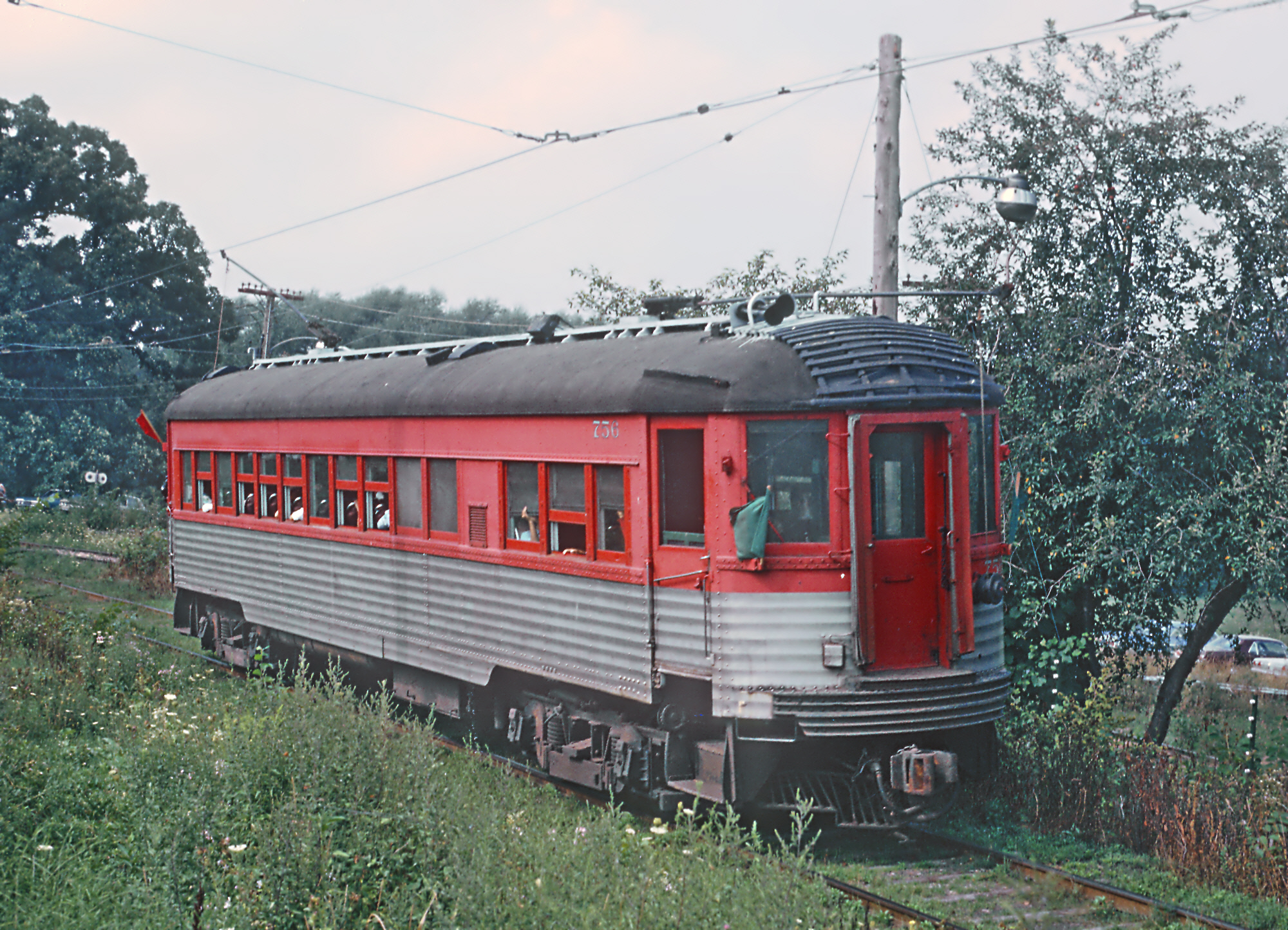 A Roger Puta Photograph